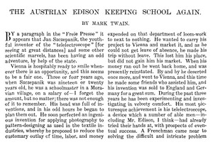 "The Austrian Edison Keepeing School Again" - Mark Twain